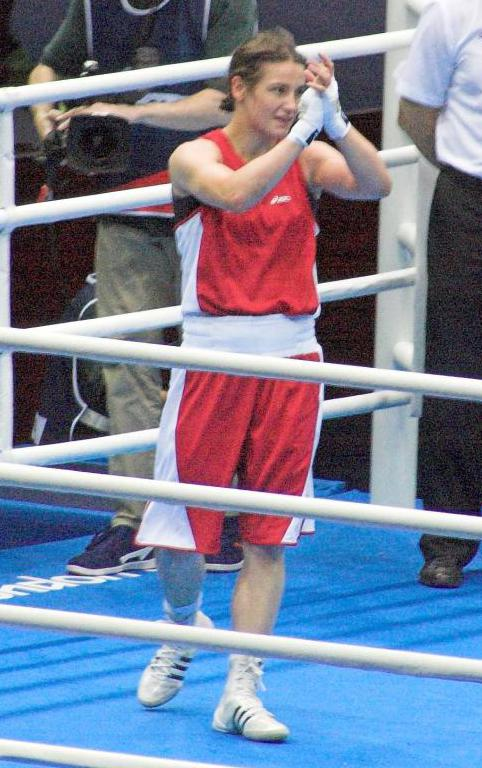 The support was incredible